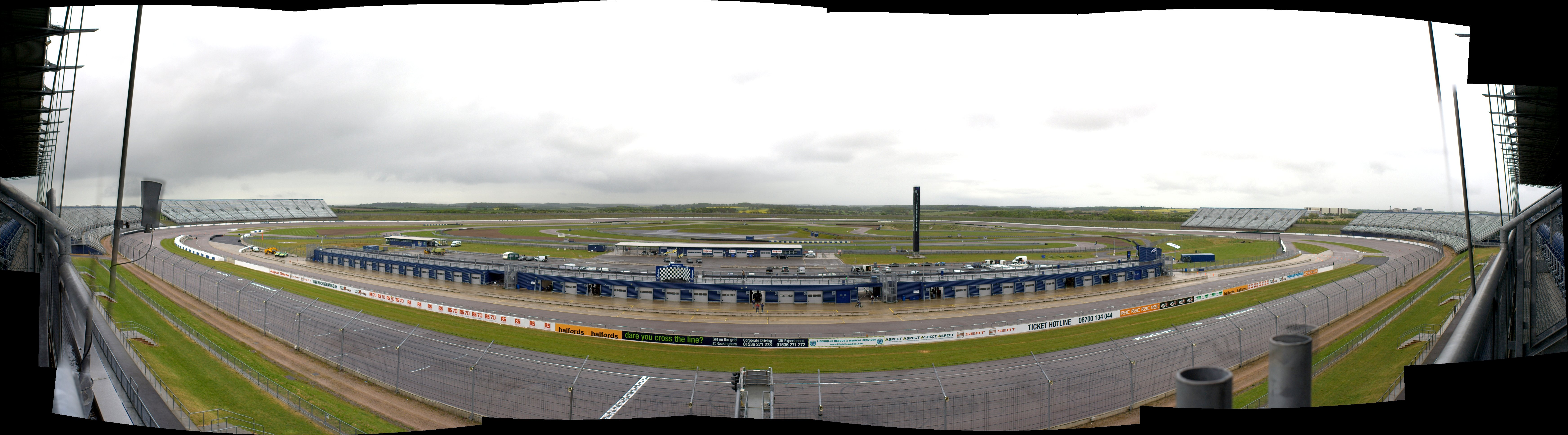 a stitched panorama of Rockingham International Motor Speedway, Corby Taken with a Canon EOS 350D and a Zuiko 24mm f2.8 lens